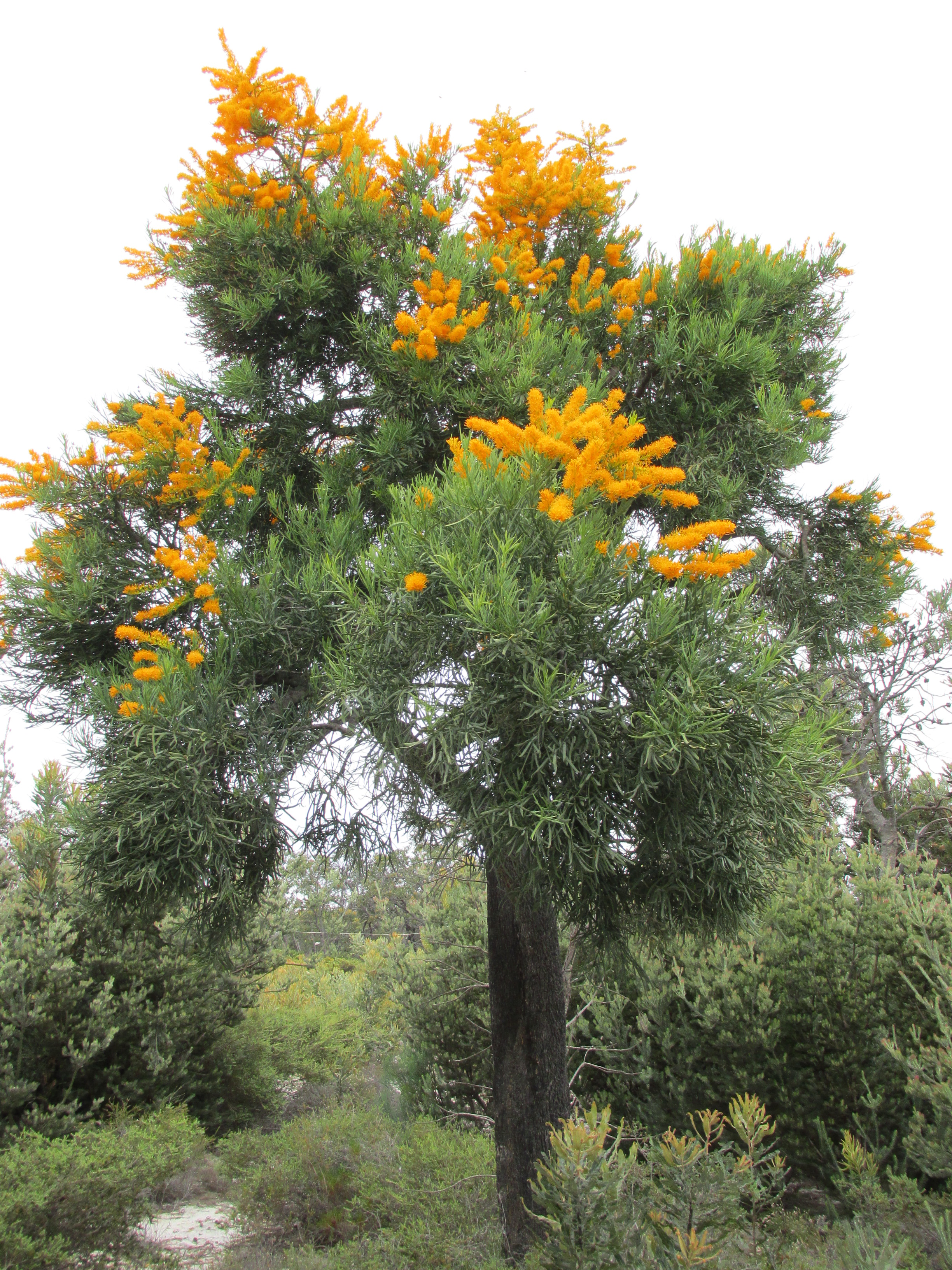 Native Christmas tree (Nuytsia floribunda) at Gravity Discovery Centre in Yeal, Western Australia